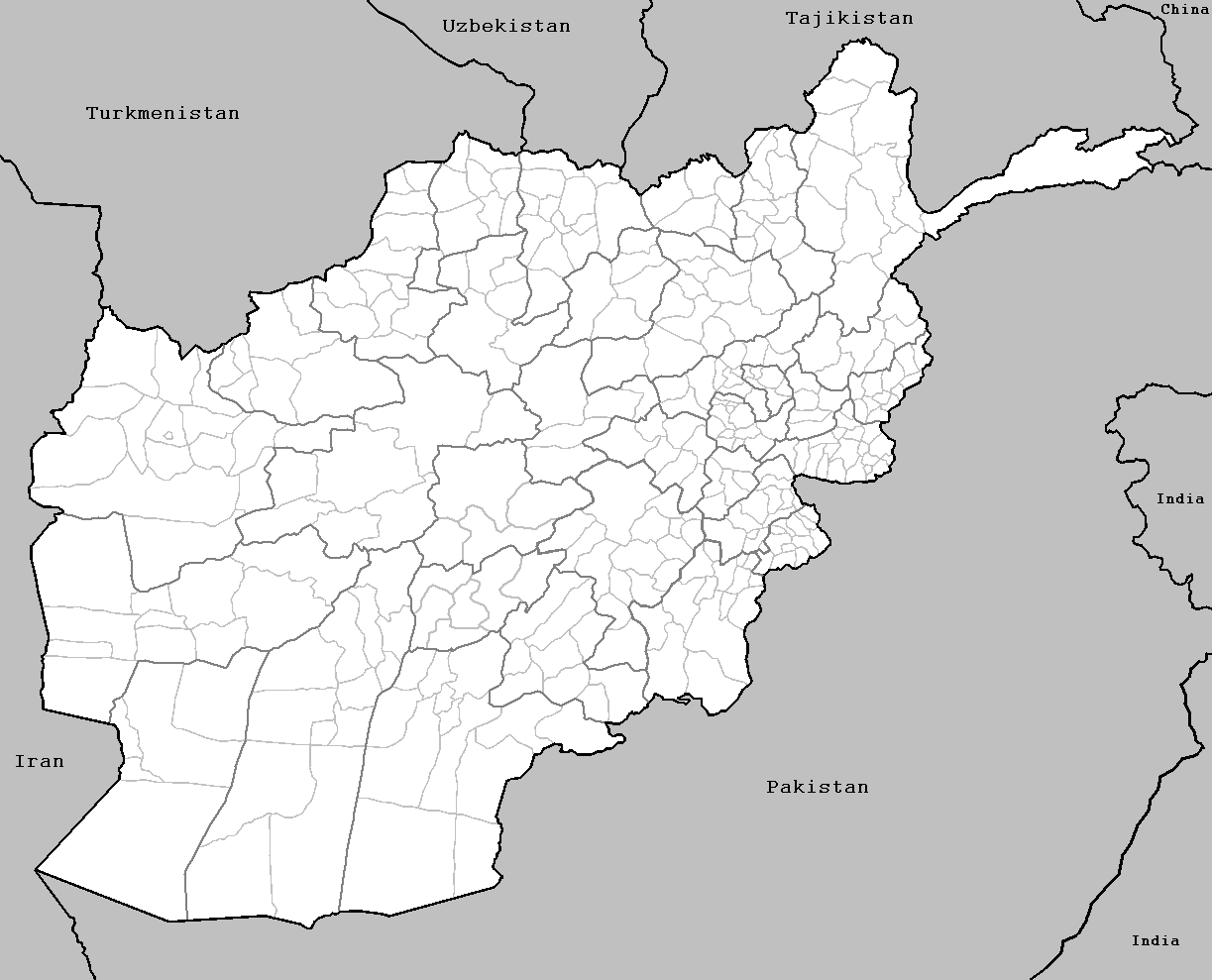 This map has been uploaded by Electionworld from to enable the Wikimedia Atlas of the World . Original uploader to was Orthuberra, known as Orthuberra at . Electionworld is not the creator of this map. Licensing information is below. I made this district map of Afghanistan for use on Wikipedia.